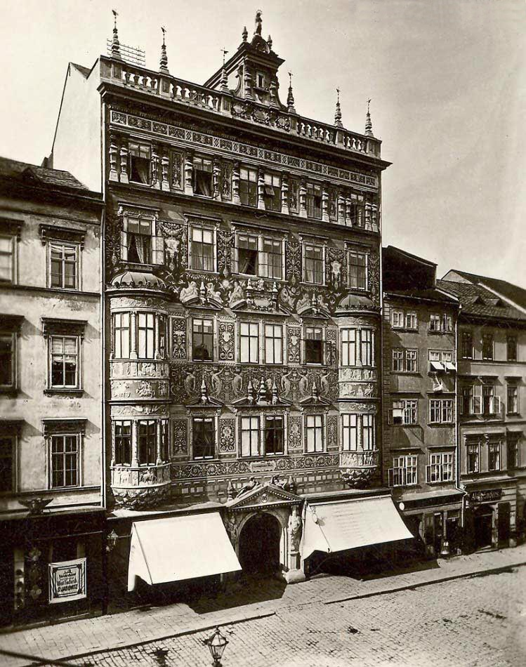 Palace of Lords of Lipá, Brno, Czech Republic